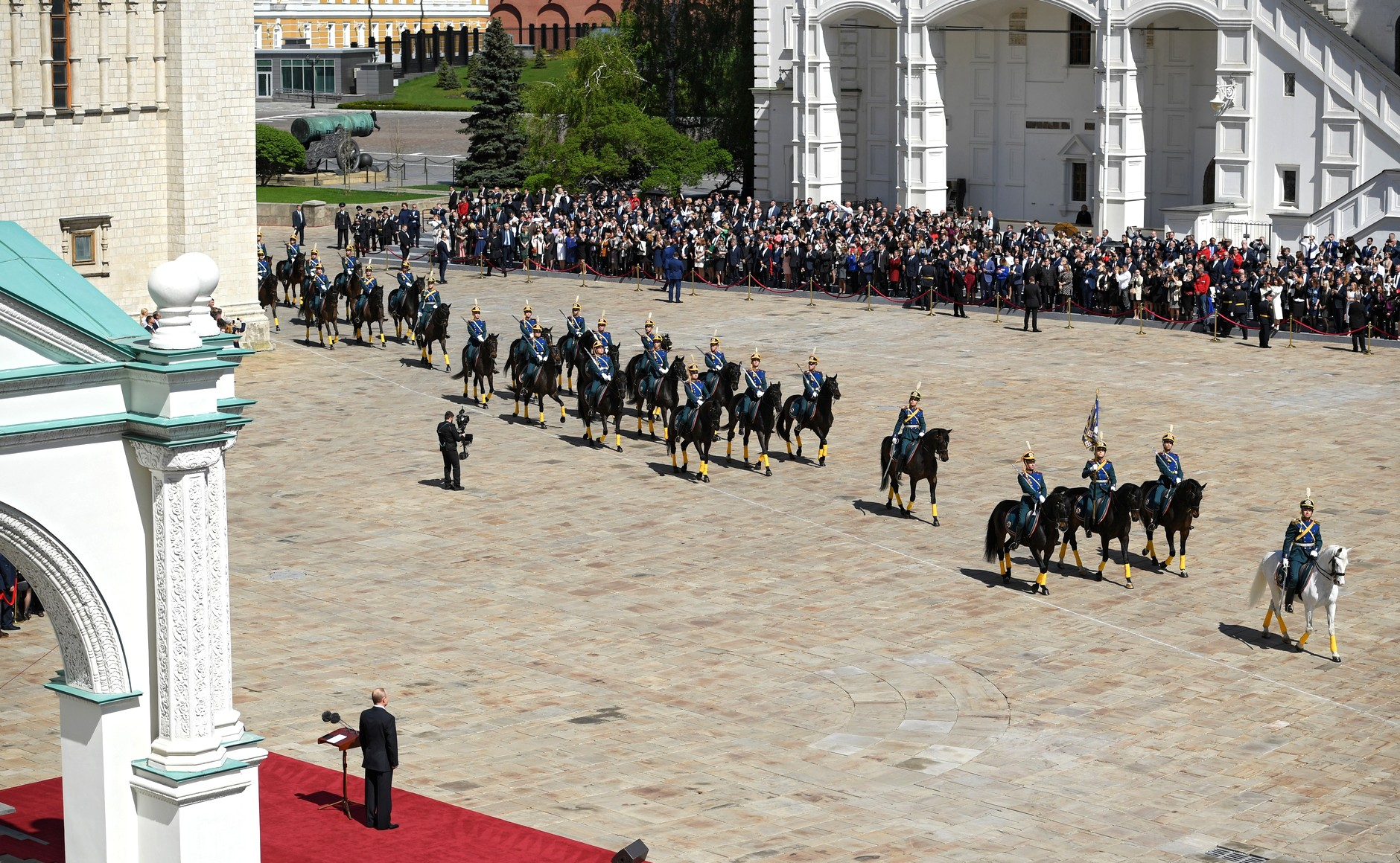 Vladimir Putin has been sworn in as President of Russia (2018-05-07)